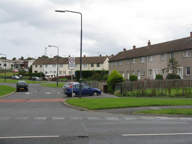 Lawfield Road, from Bogwood Road